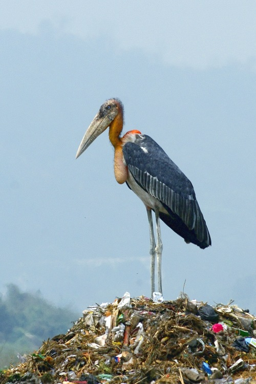 Greater Adjutant (Leptoptilos dubius) in Guwahati, Assam in March 2007.